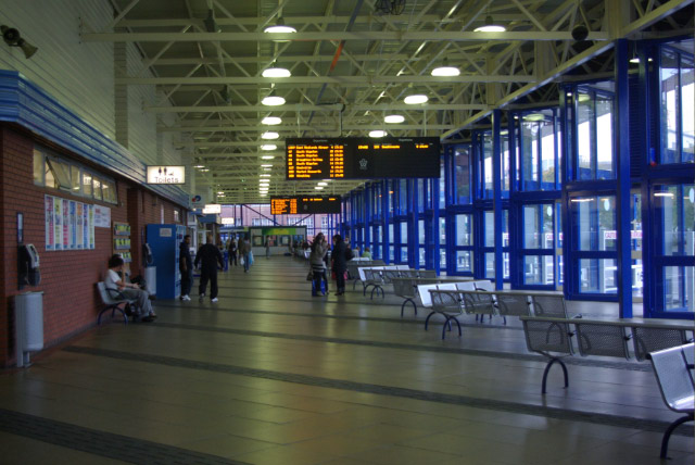 Leicester St Margaret's Bus Station St Margaret's Bus Station is Leicester's main departure point for long-distance and out-of-town bus services. In this Sunday afternoon view, however, there were few passengers and even fewer buses to be seen.